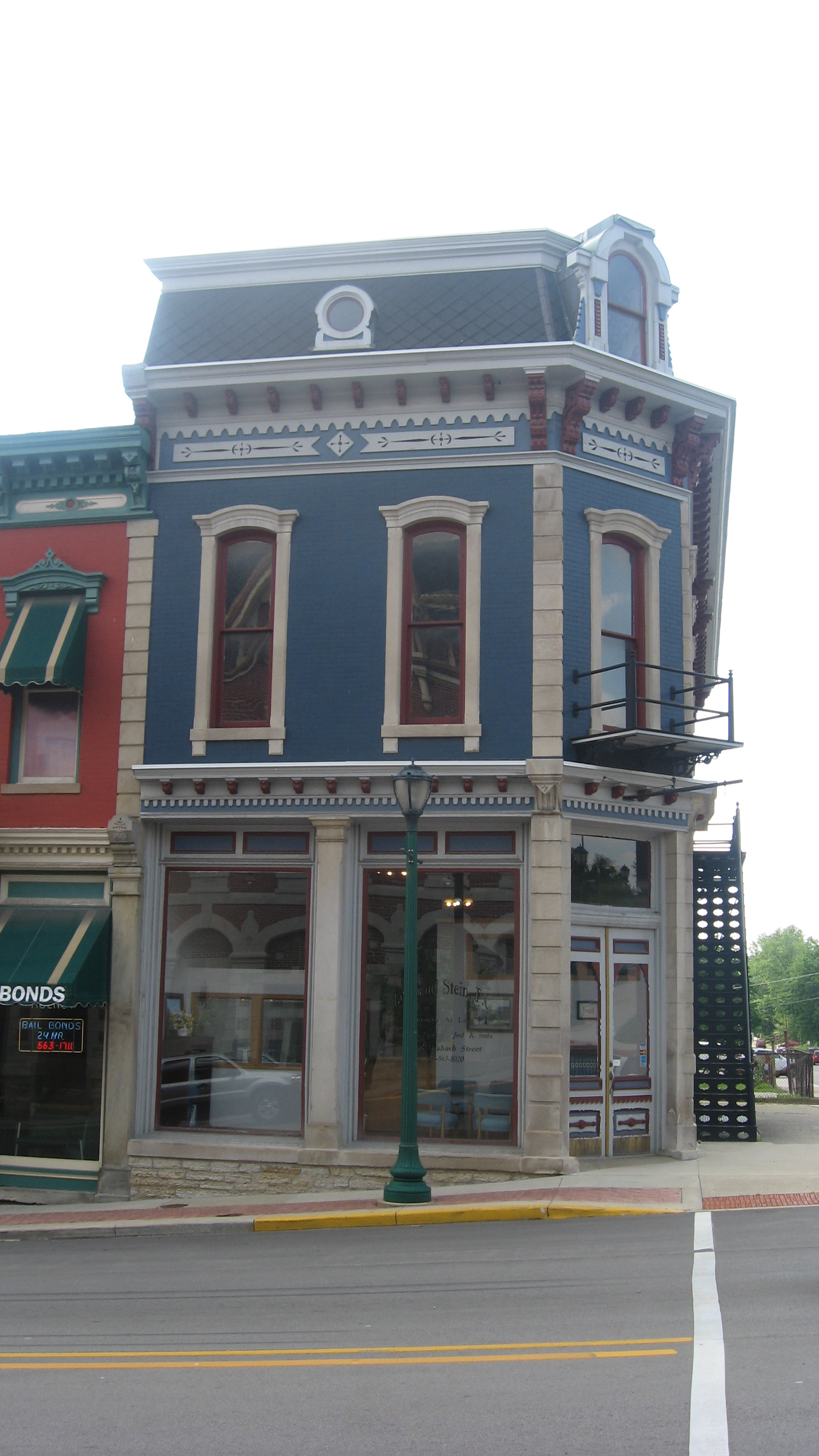 Front of the Solomon Wilson Building, located at 102 S. Wabash Street (State Road 13) in Wabash, Indiana, United States. Built in 1883, it is listed on the National Register of Historic Places, and it is part of a Register-listed historic district, the Downtown Wabash Historic District.